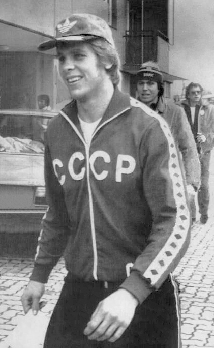 1976 Press Photo Steve Jensen U.S. Olympic Ice Hockey - RRQ19297